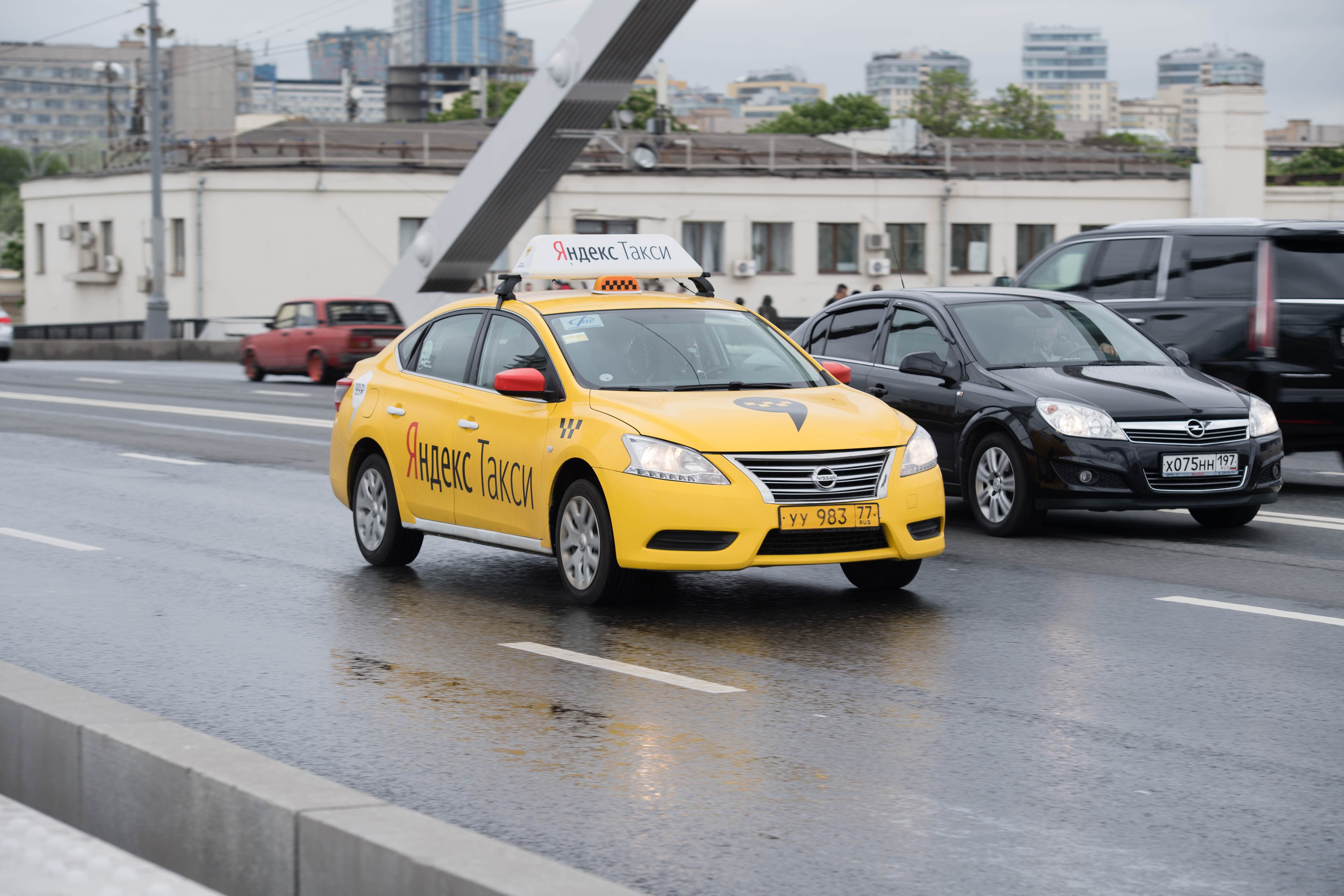 Yandex.Taxi car in Moscow